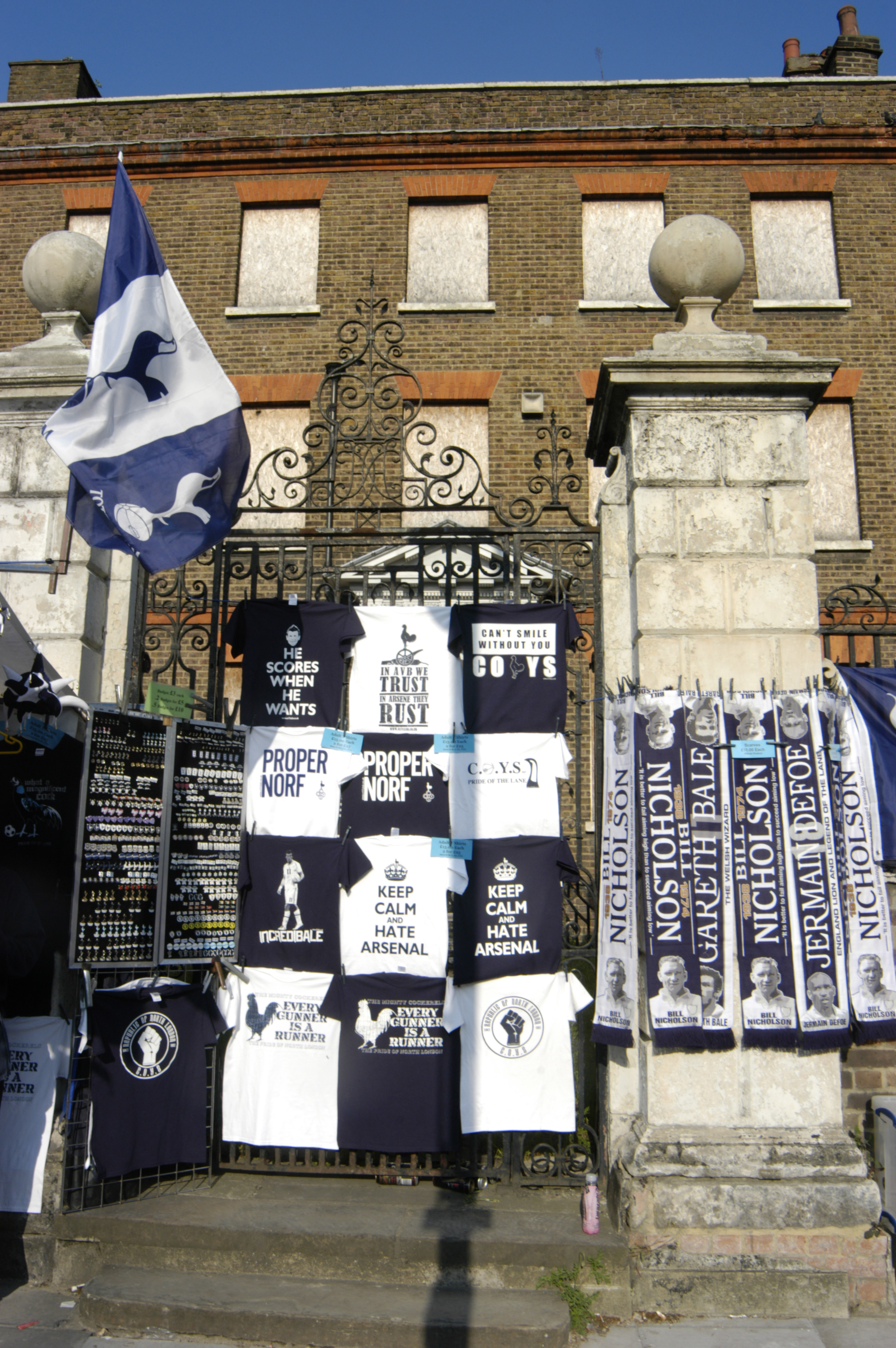 Photo of the ancient Smithson house (Percy House) in Tottenham, photo 19 May 2013, by me Rodolph de SalisRodolph (talk) 23:12, 26 May 2013 (UTC)